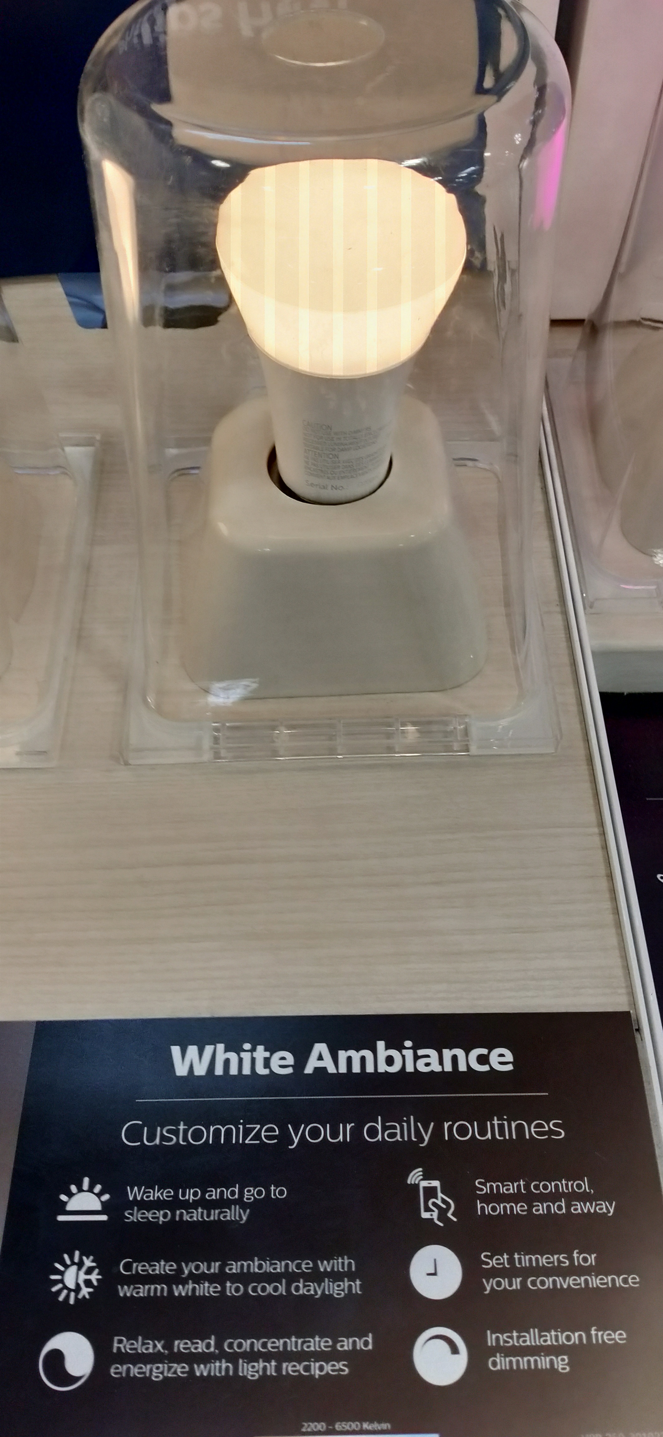 Hue White Ambiance